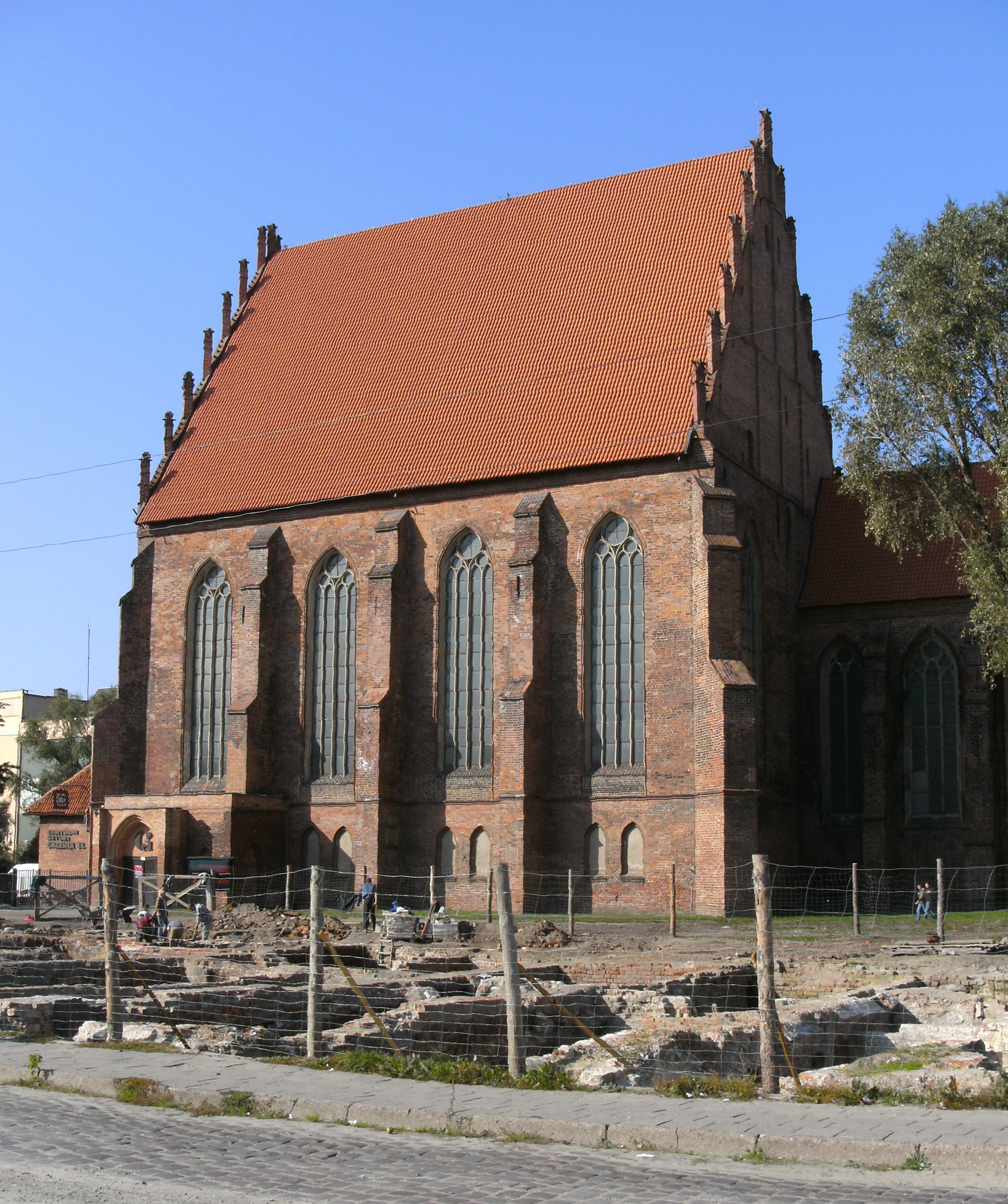 Former Dominican Church in Elbląg, Poland (now Art Gallery)